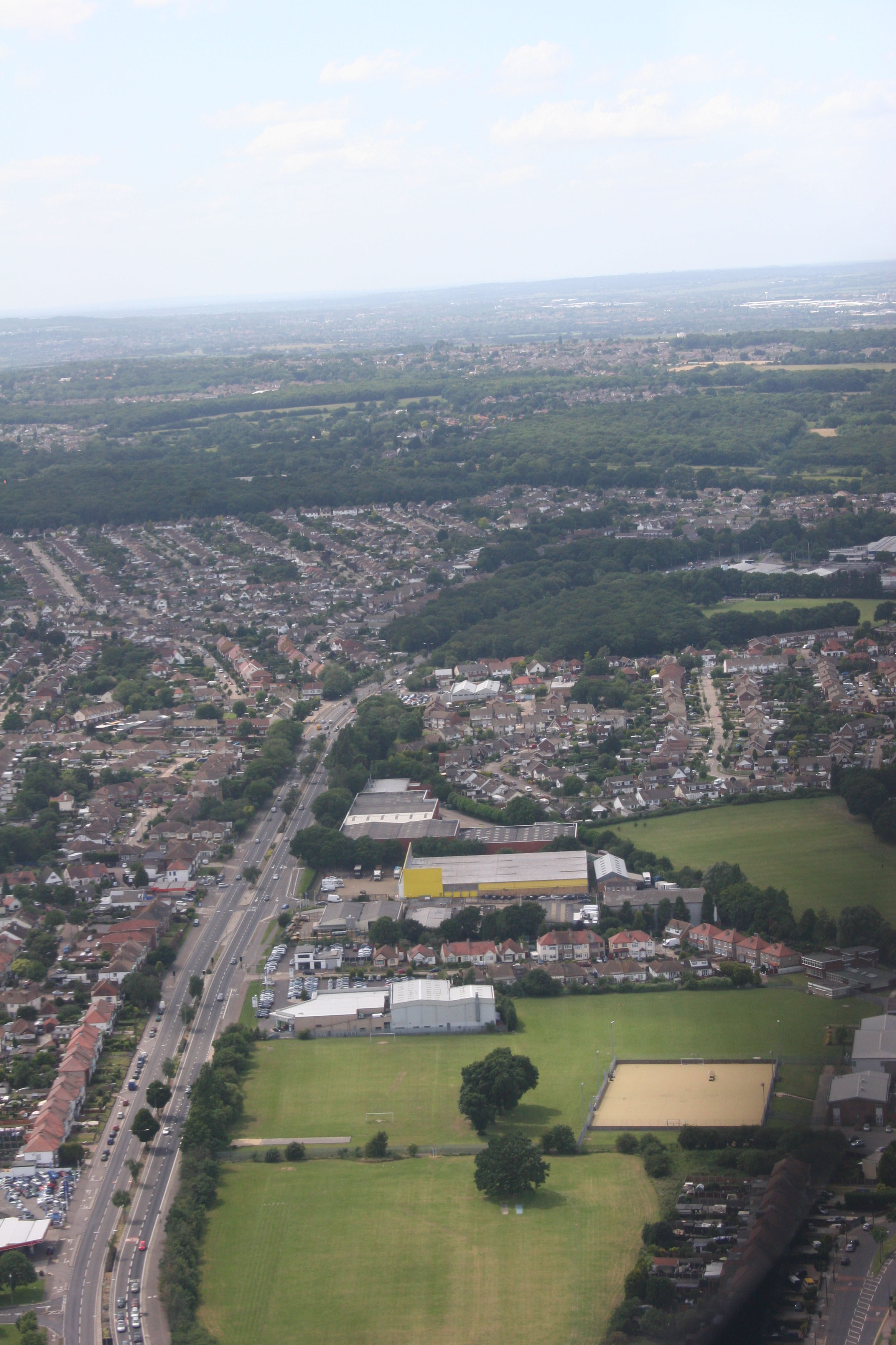 A127 between Rayleigh Road (A1015) Kent Elms Corner and almost to Progress road. Kent Elms is off-camera below. The A127 cuts through a circular wood (Oakwood Park) as it curves right. Immediately beyond Oakwood Park is Progress Road: the junction with the A127 is just visible among trees. Places shown are Belfairs (left) and Eastwood (right).